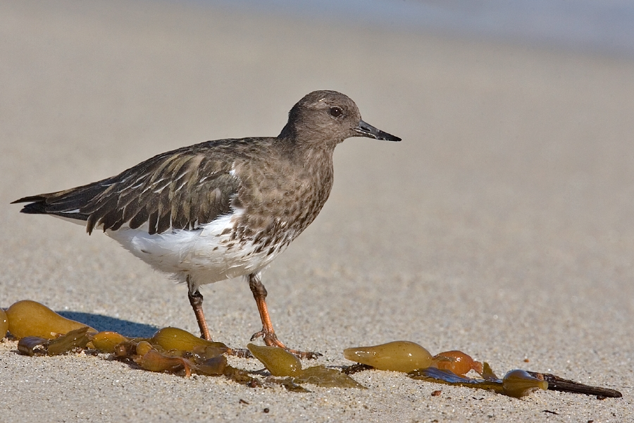 Arenaria melanocephala - Black Turnstone, Children's Pool, San Diego La Jolla Underwater Park (Ecological Reserve), La Jolla, California